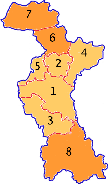 Municipalities of Zibo city in Shandong province, China